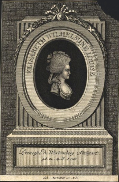 Elisabeth Wilhelmine Louise Princesse of Württemberg 1767-1790, first wife of Archduke Franz Joseph Karl, later Emperor Francis II of Holy Roman Empire (Francis I of Austria)